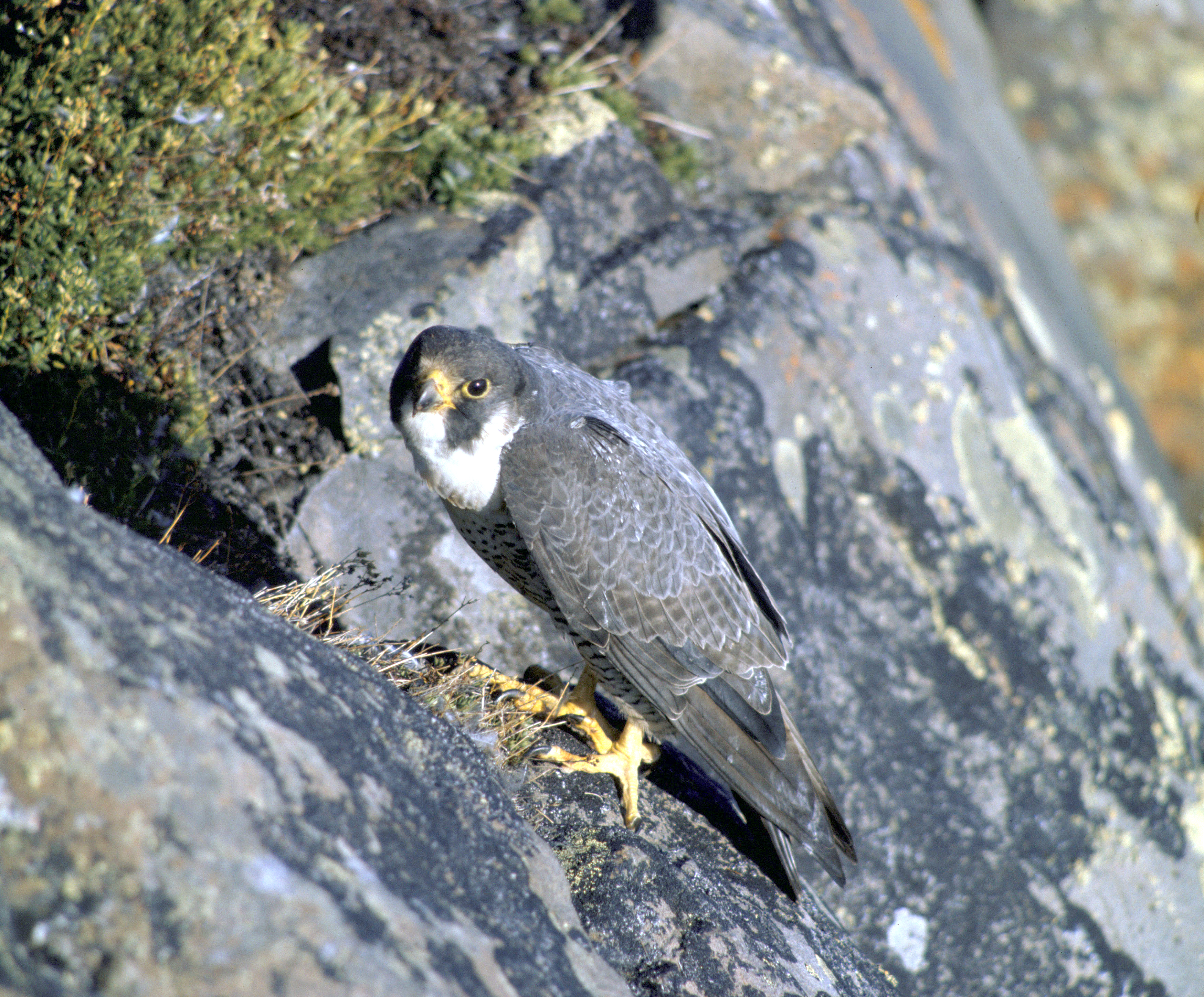 Falco peregrinus tundrius at nest, Alaska - USFWS photo